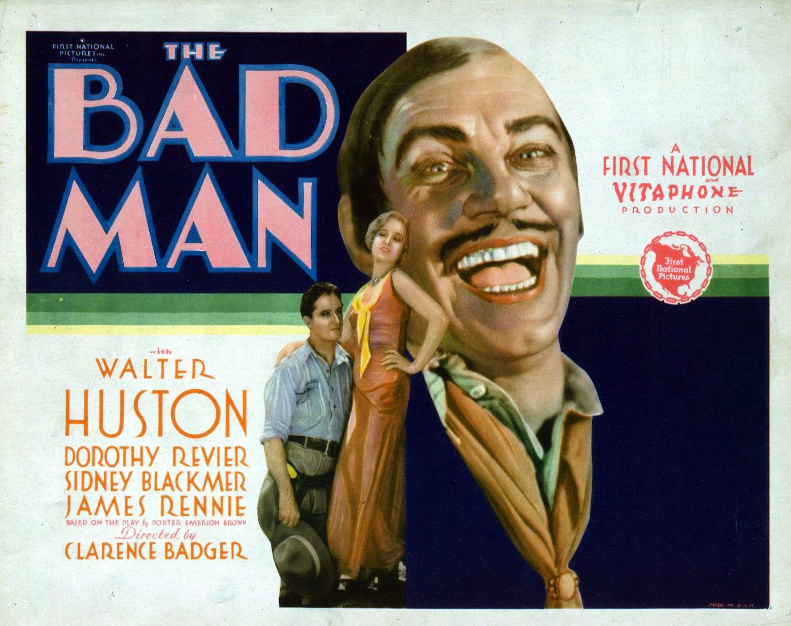 Lobby card for the 1930 film The Bad Man.